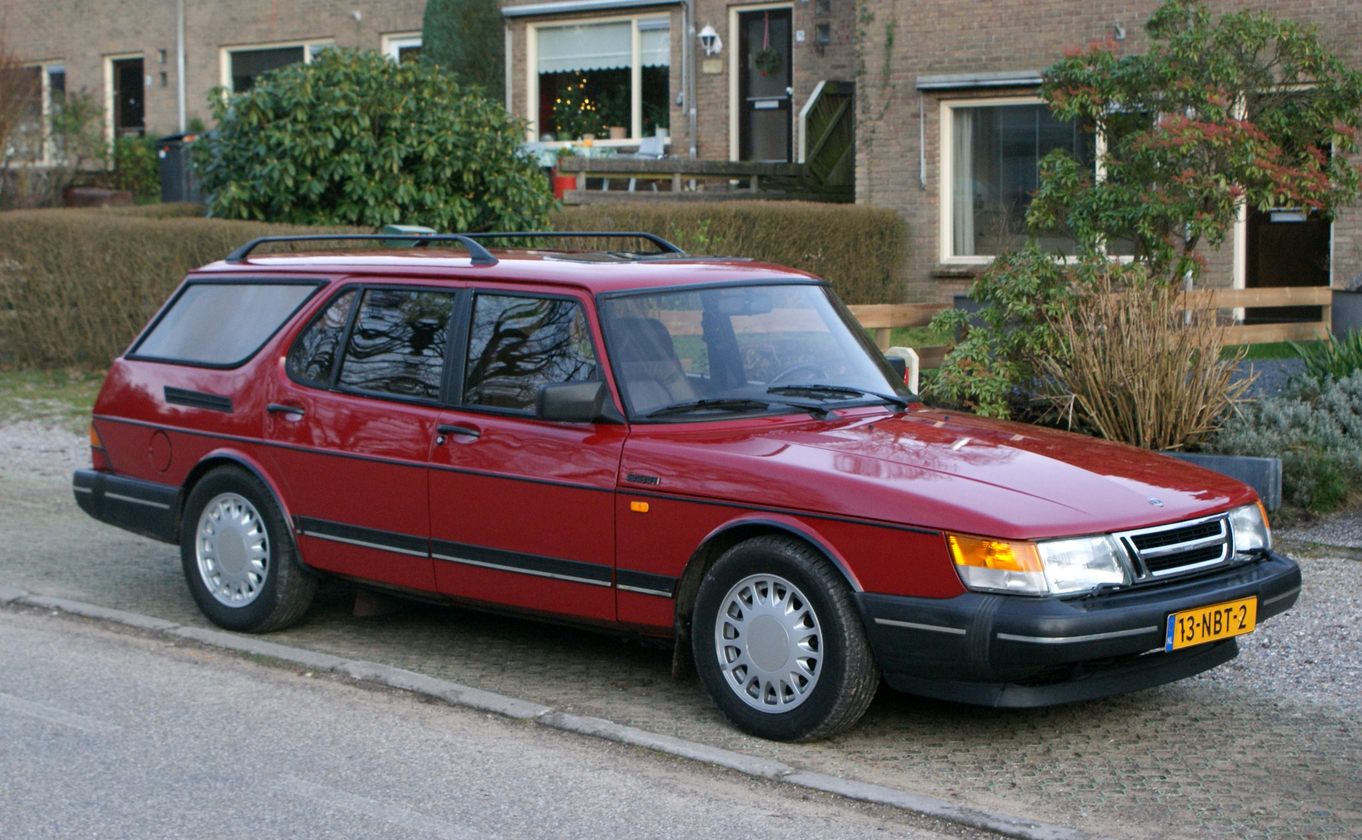 13-NBT-2 Only 2 made! The other one is in the Saab Museum in Sweden.